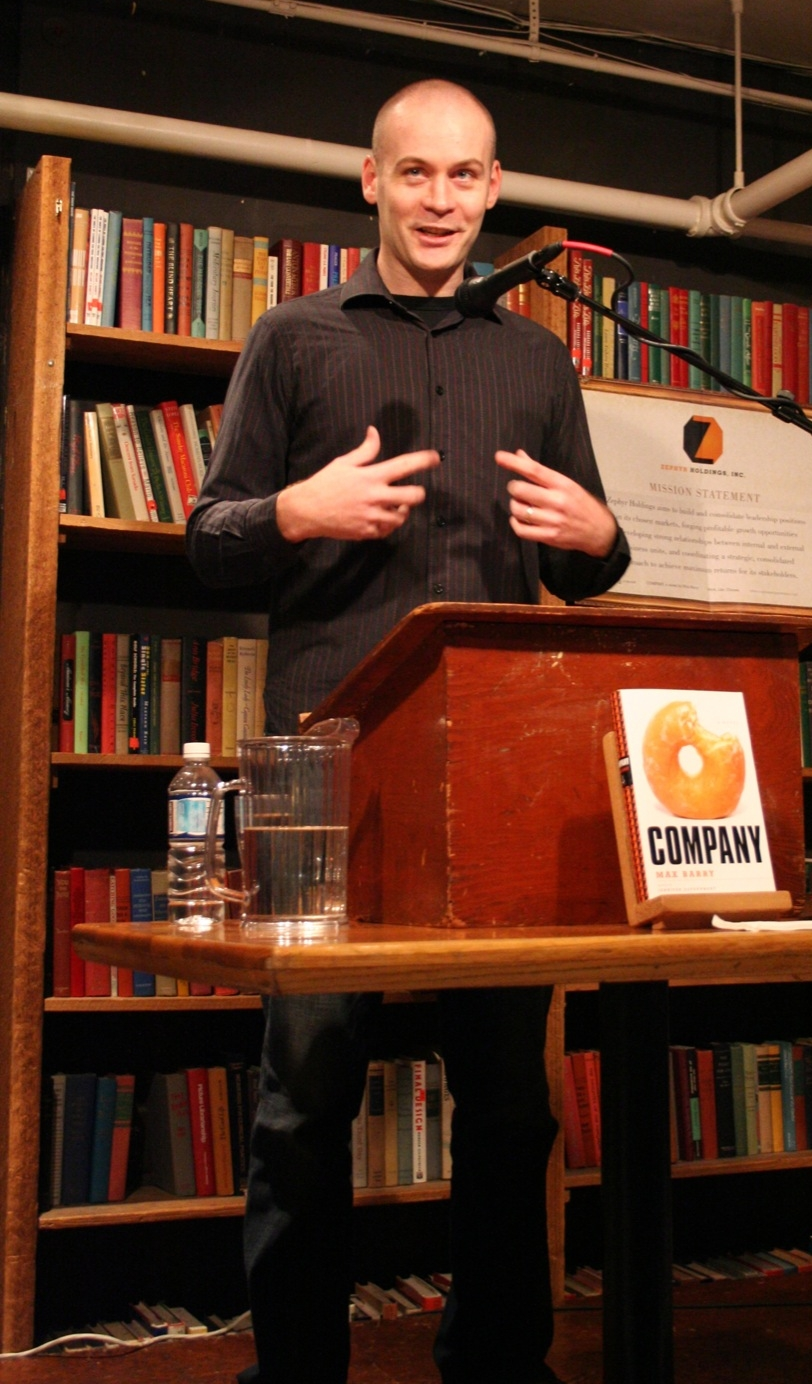 Australian author Max Barry.